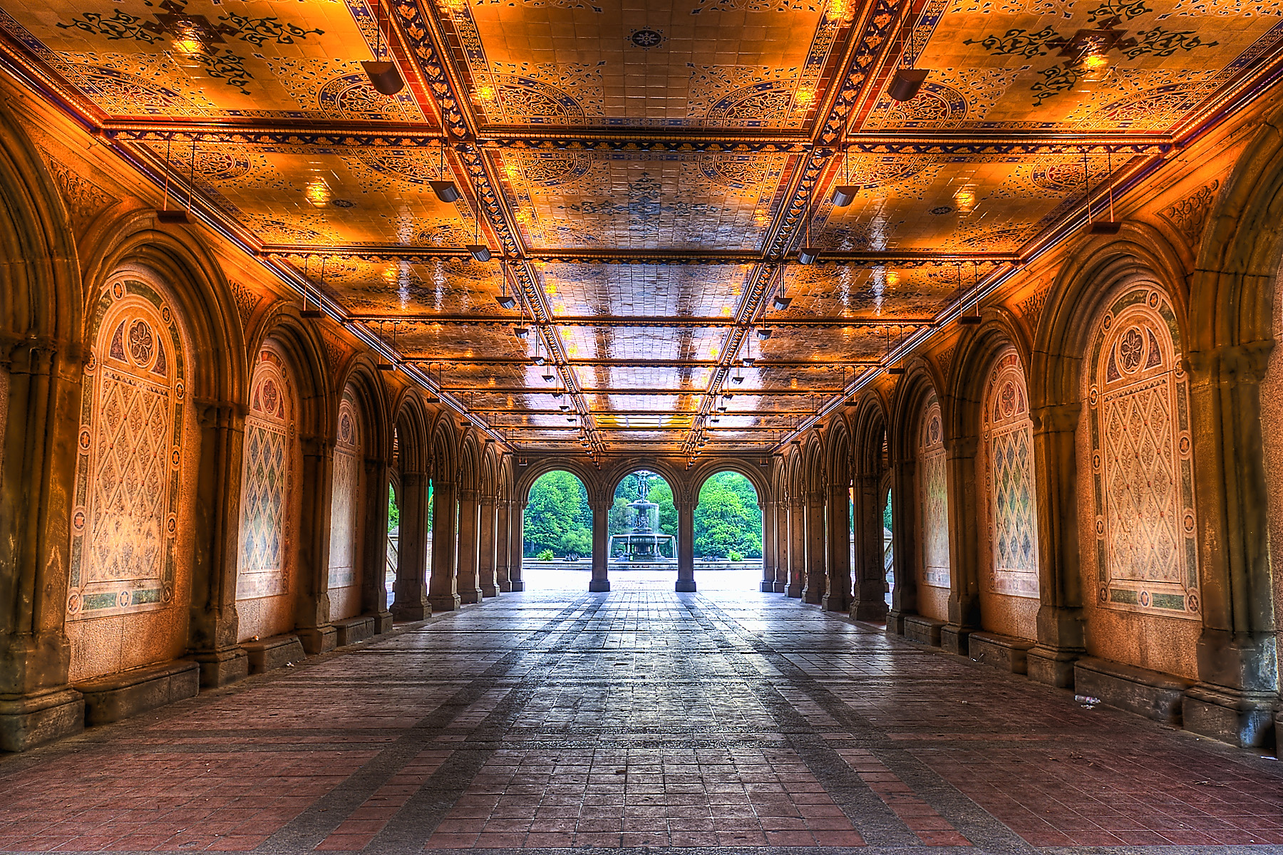 Photo taken very early in a Sunday morning (to avoid the crowds). In the background below the center arch you can see the Angel of the Waters. Three exposure HDR but I tried hard not to make it HDR-like. To really appreciate the picture, you have to click the link below to see the large image. See it large in black: here. EXIF data: Camera: Nikon D80 Lens: Nikkor 10-24mm 1: 3.5-4.5 G ED Aperture: f/4.5 Focal Length: 16 mm ISO Speed: 100 In their master plan for Central Park, the 1858 Greensward plan, Frederick Law Olmsted and Calvert Vaux proposed an architectural "heart of the Park" defined by a sweeping Promenade that would culminate in a Terrace overlooking the Lake. But as Vaux told a newspaper reporter in 1865, the architecture was always to be subordinate to the landscape: "Nature first, second and third ? architecture after awhile." Yet Olmsted and Vaux also understood the practical nature of a public park. There had to be places for people to gather, to experience the human variety the City had to offer, as well as the inspiration of nature. And they succeeded splendidly with Bethesda Terrace and what we now call the Mall (formerly the Promenade).